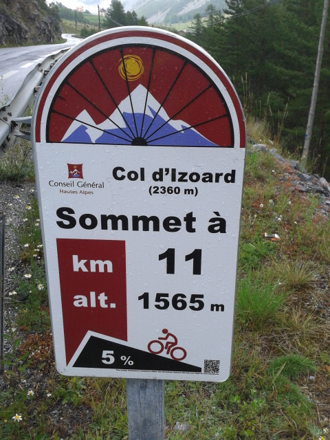 Mountain pass cycling milestone at the Col d'Izoard in France ascending from Briançon